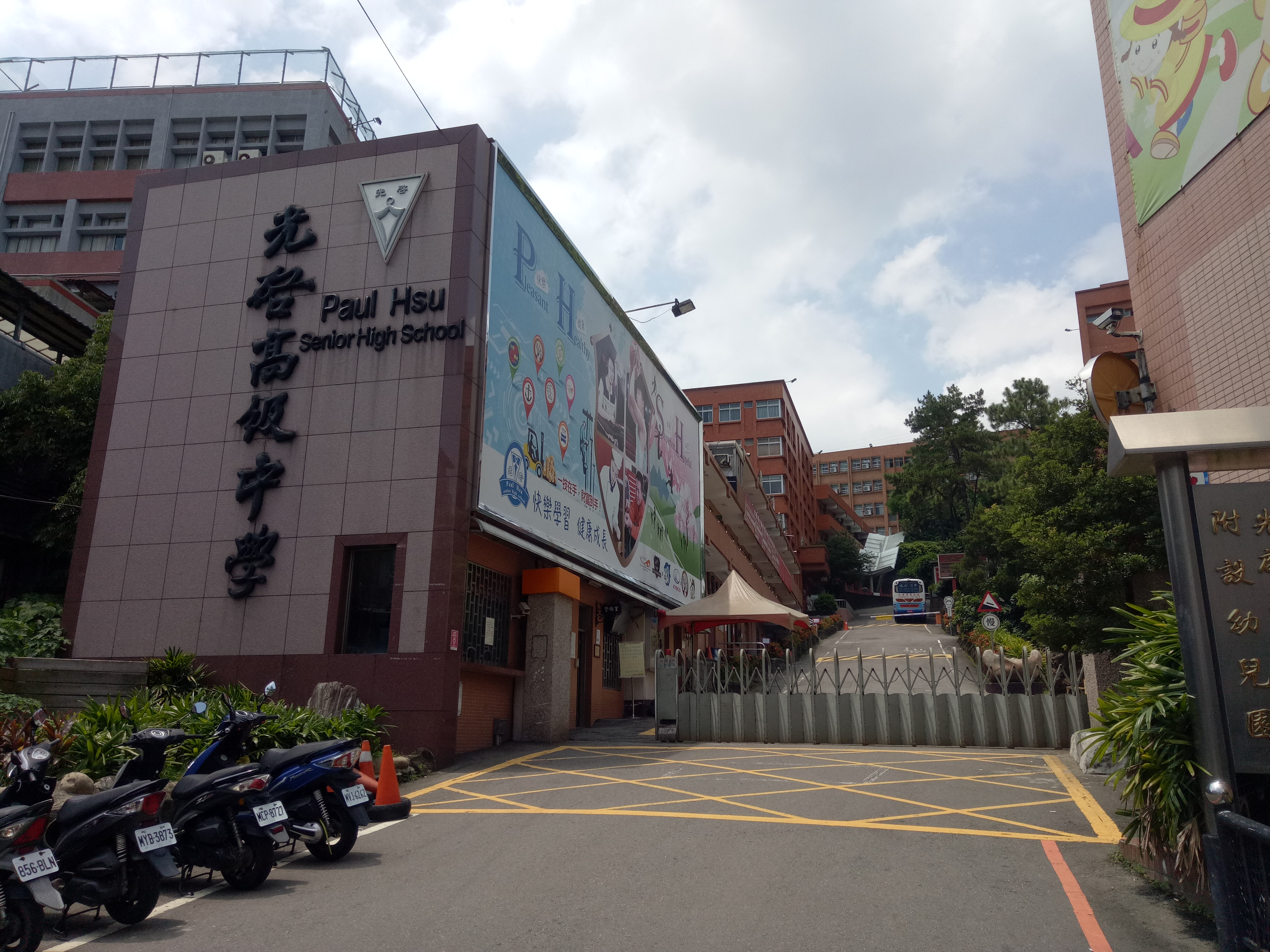 Paul Hsu Senior High School.